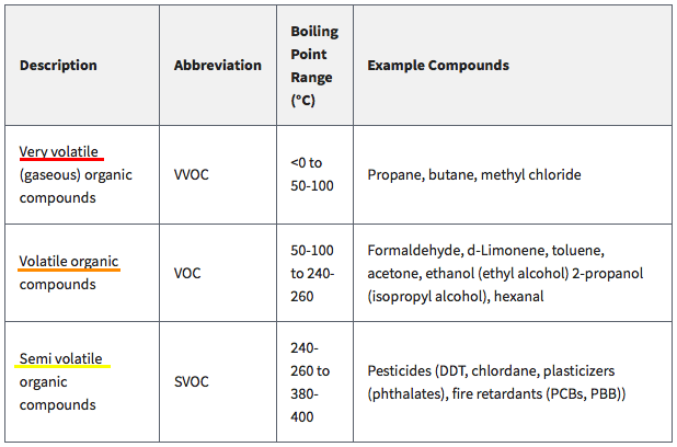 Classifications of VOCs and air quality